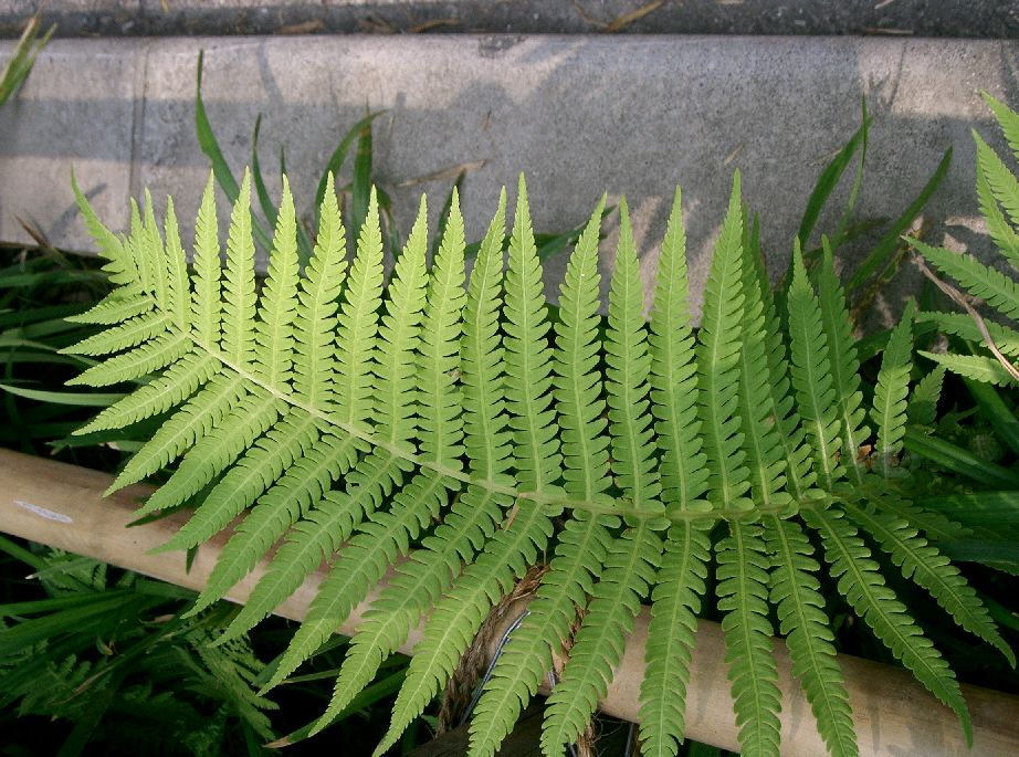 Matteuccia struthiopteris